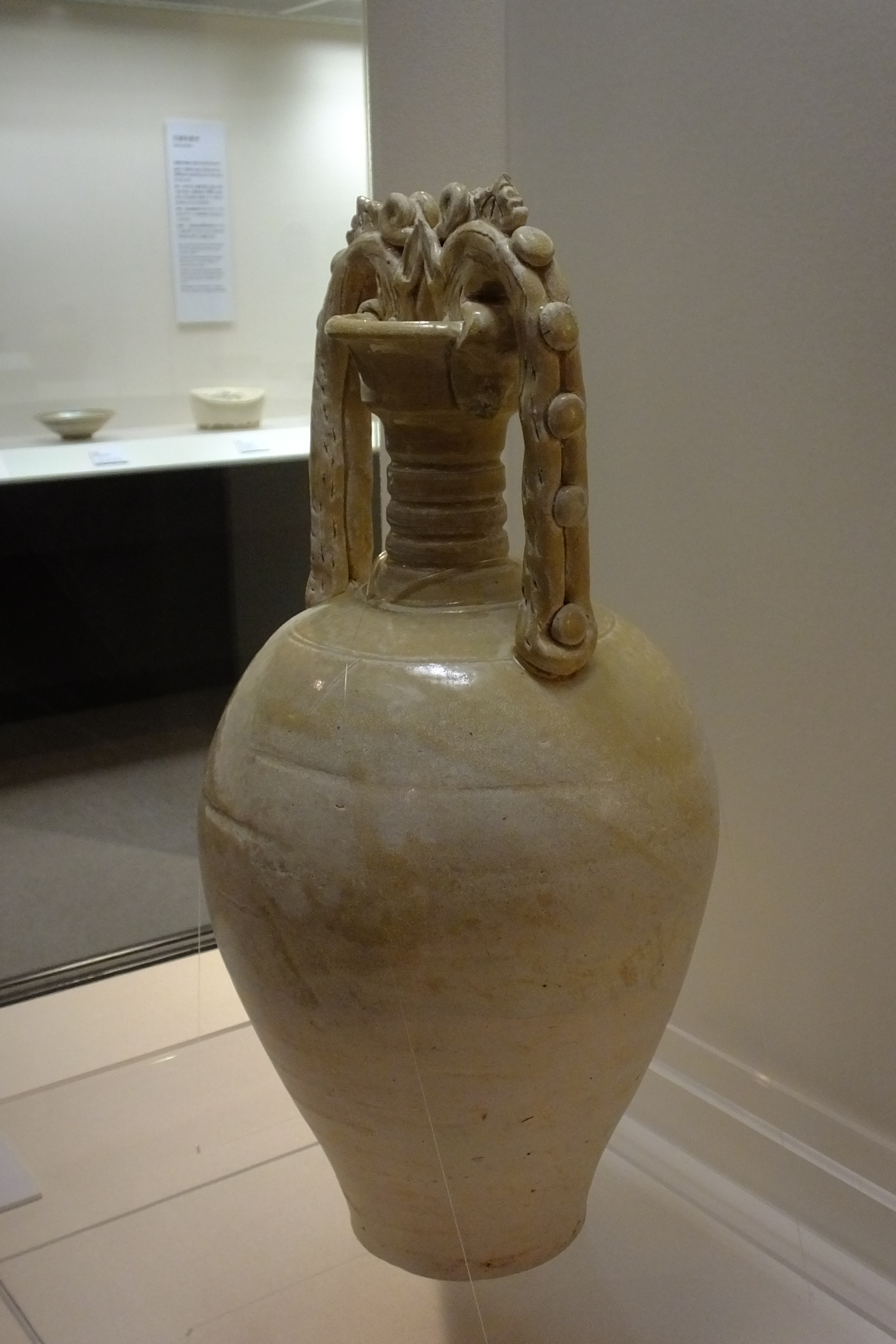 White Glazed Vase with Dragon-Shaped Handles